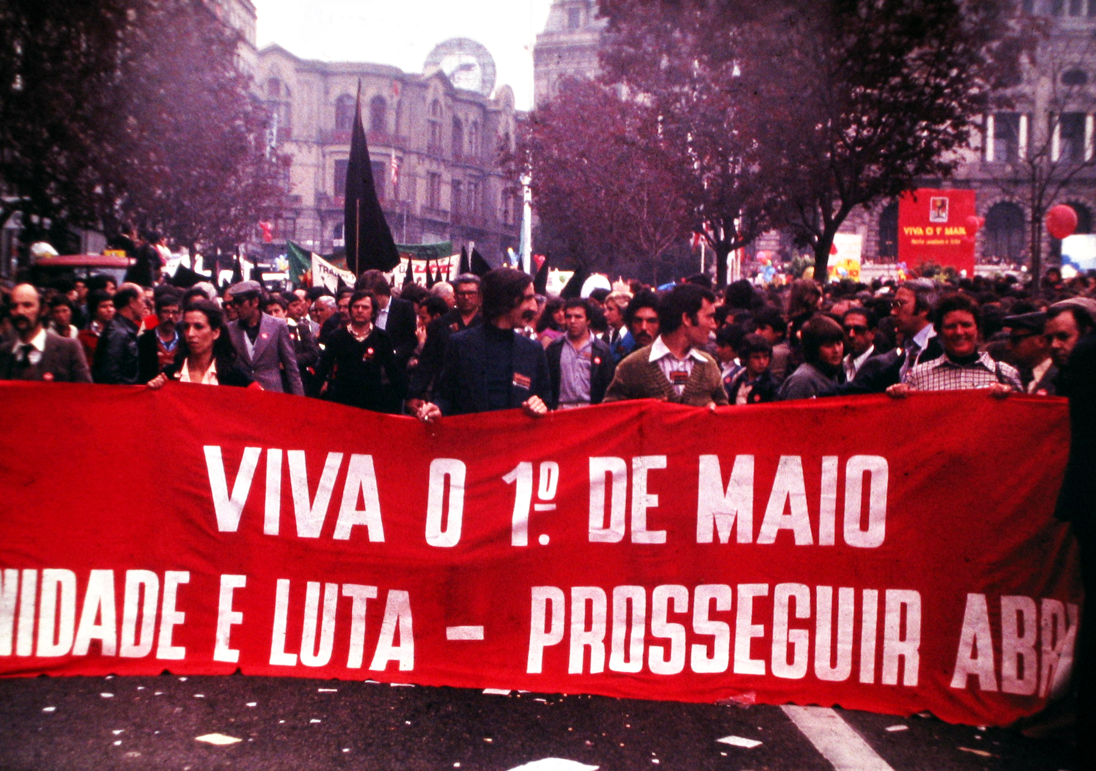 Demonstration in Oporto on May 1, 1980 - Portugal